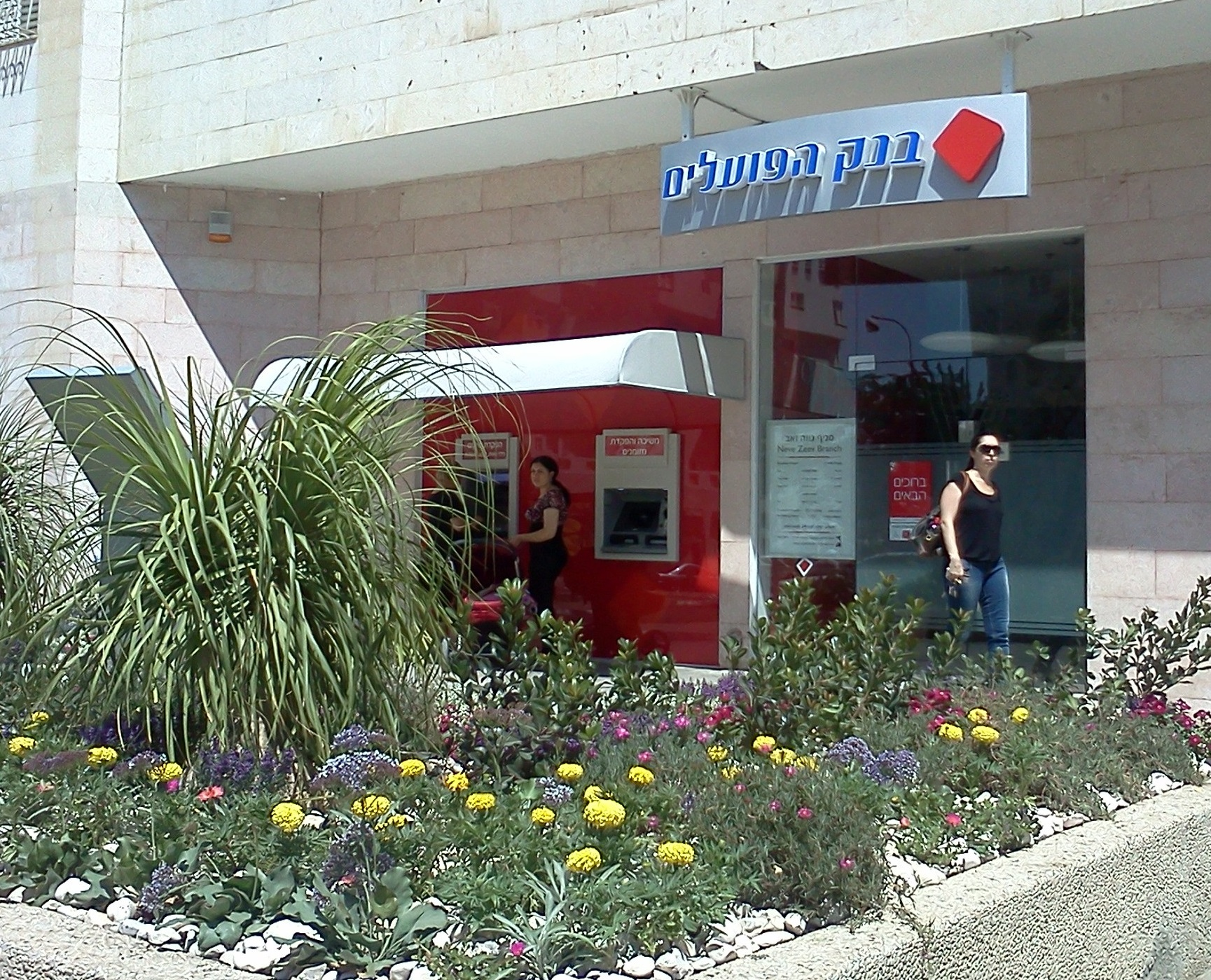 Bank Hapoalim branch in Beesheba, Israel, where the "2013 Beersheba shootings" occurred , on May 20, 2013.